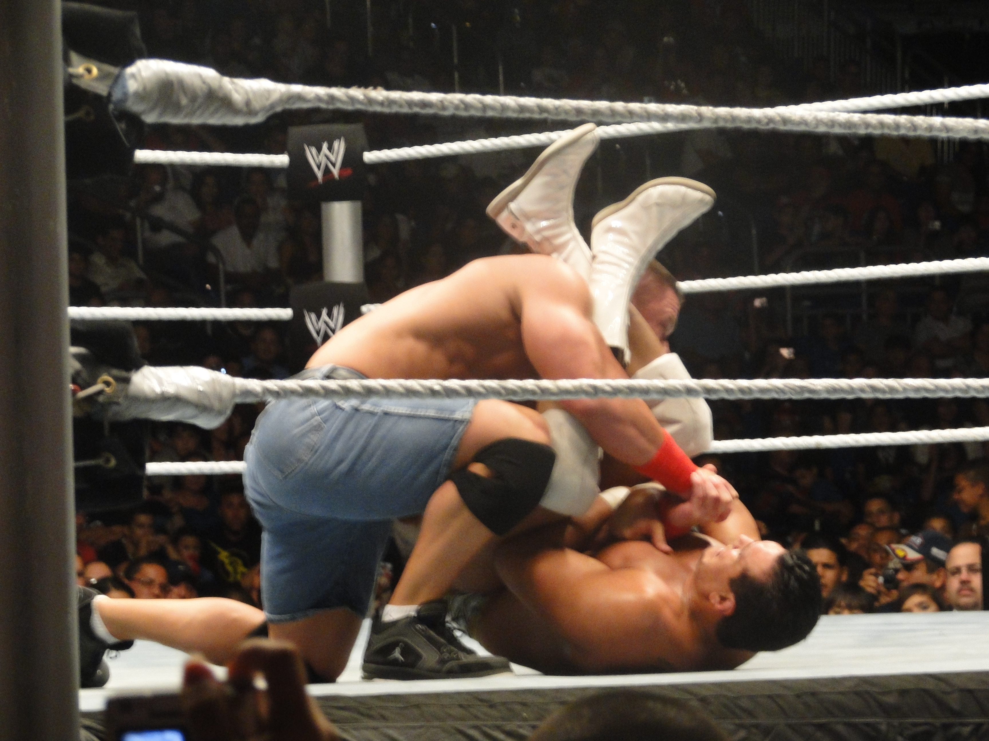 John Cena caught in an armlock.